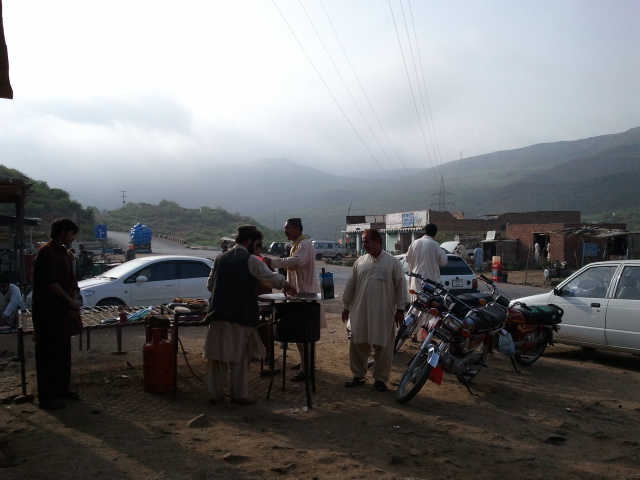 Fort Munro